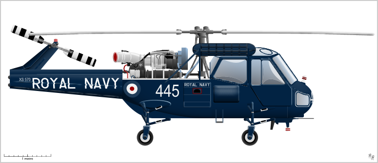 Westland Wasp HAS.1 helicopter, drawn using XaraX software.